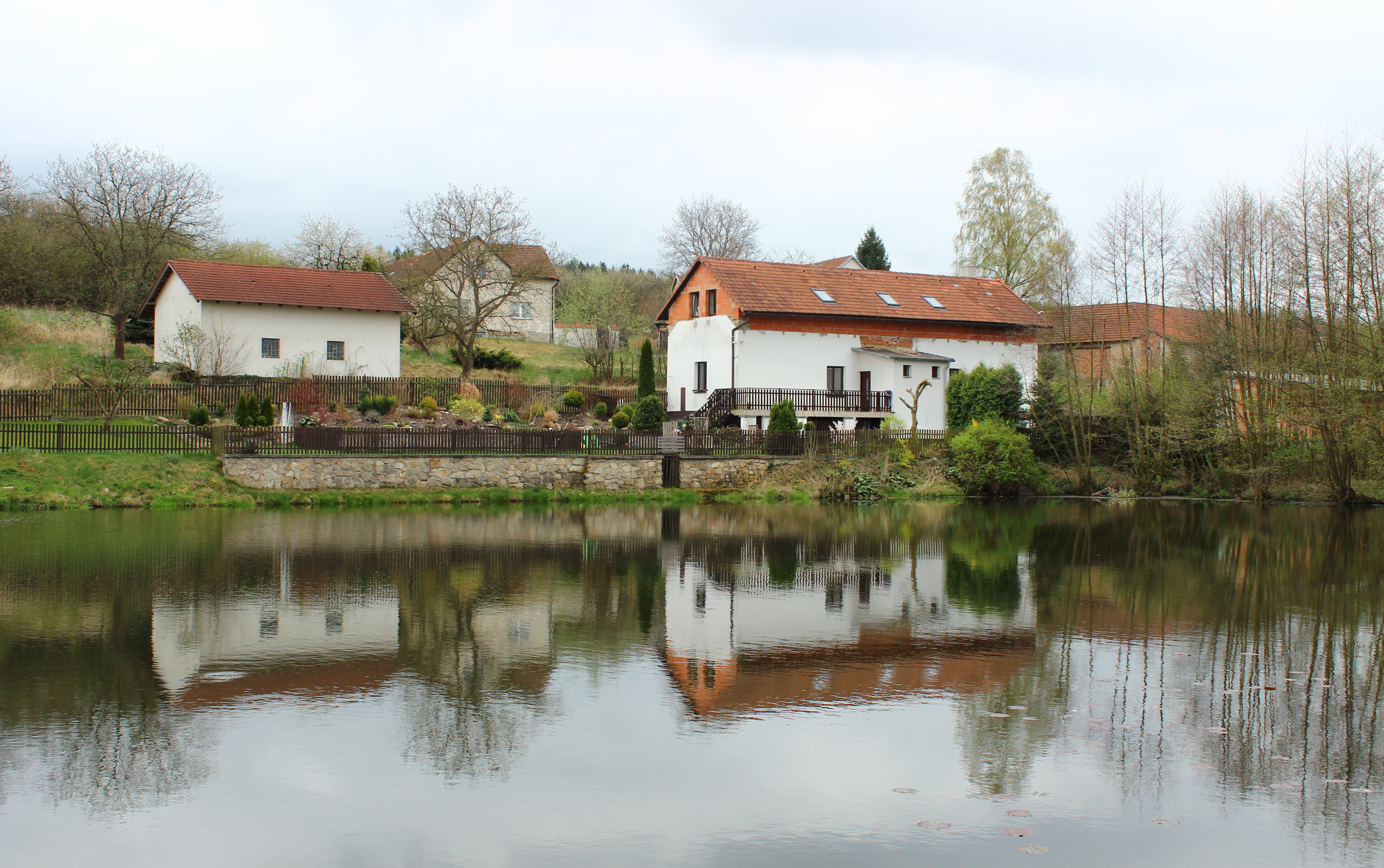 Small pond in Rousínov, part of Kozmice village, Czech Republic